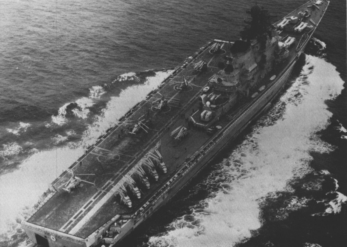 The Soviet aircraft carrier Kiev underway, circa 1981.